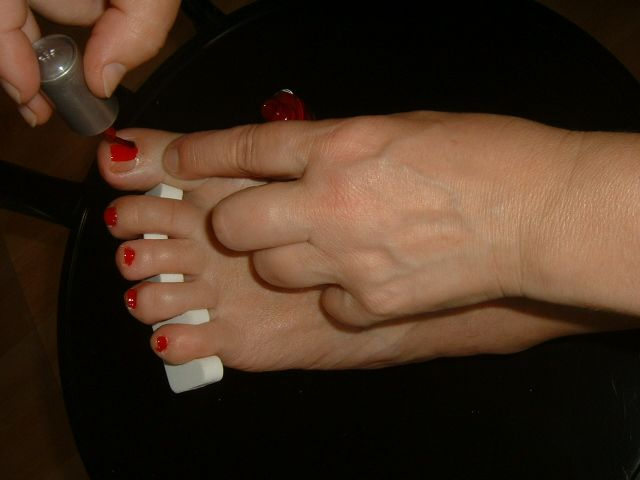 Applying nail polish on toes